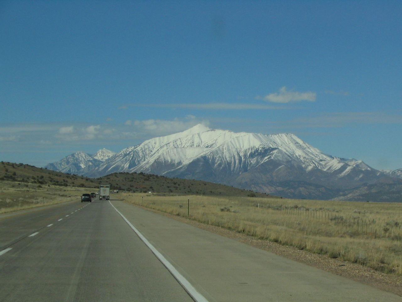 Mount Nebo from Interstate 15 near Nephi, Utah